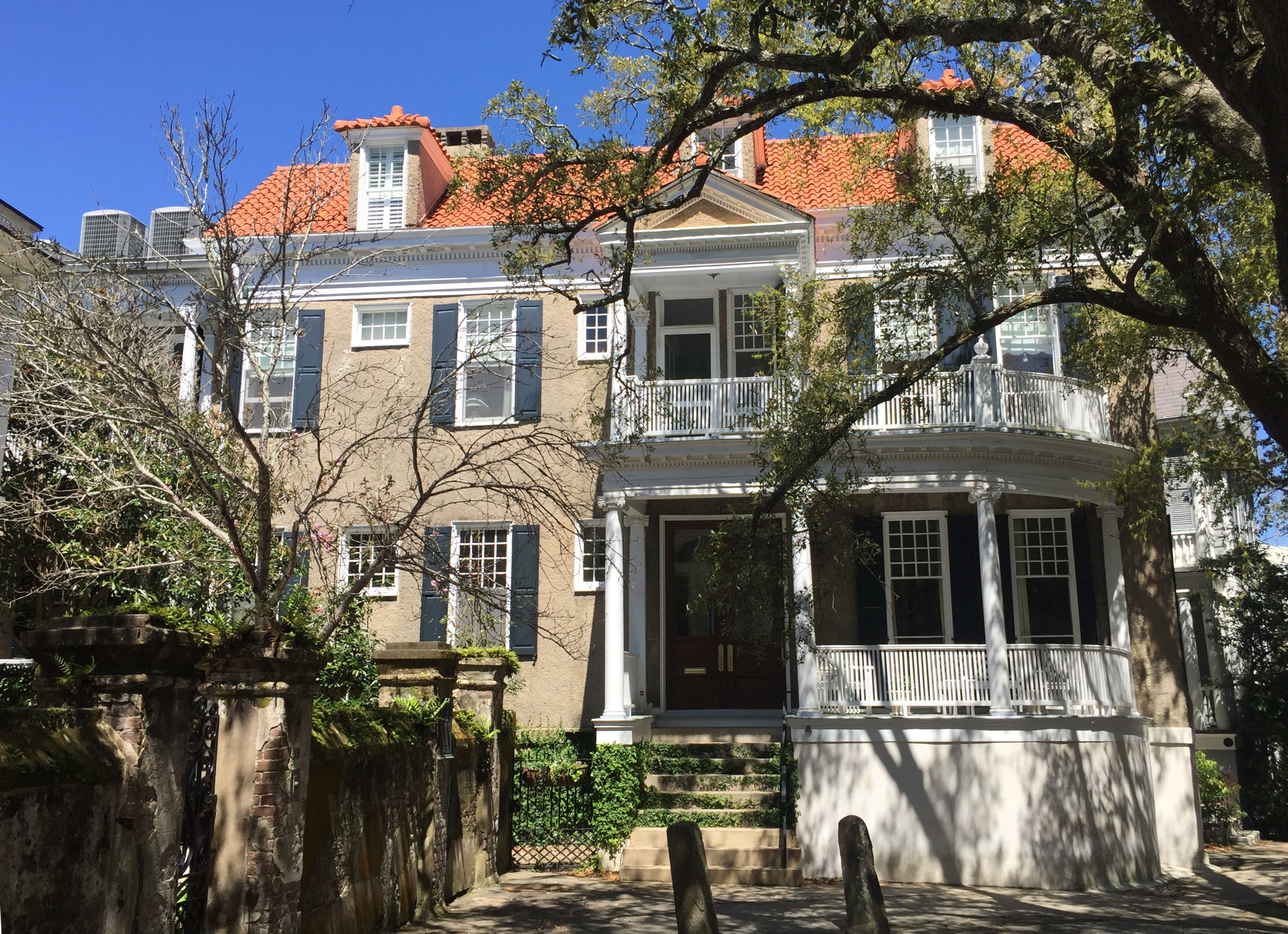 The colonial revival house at 41 Church St., Charleston, South Carolina was designed by Albert W. Todd.